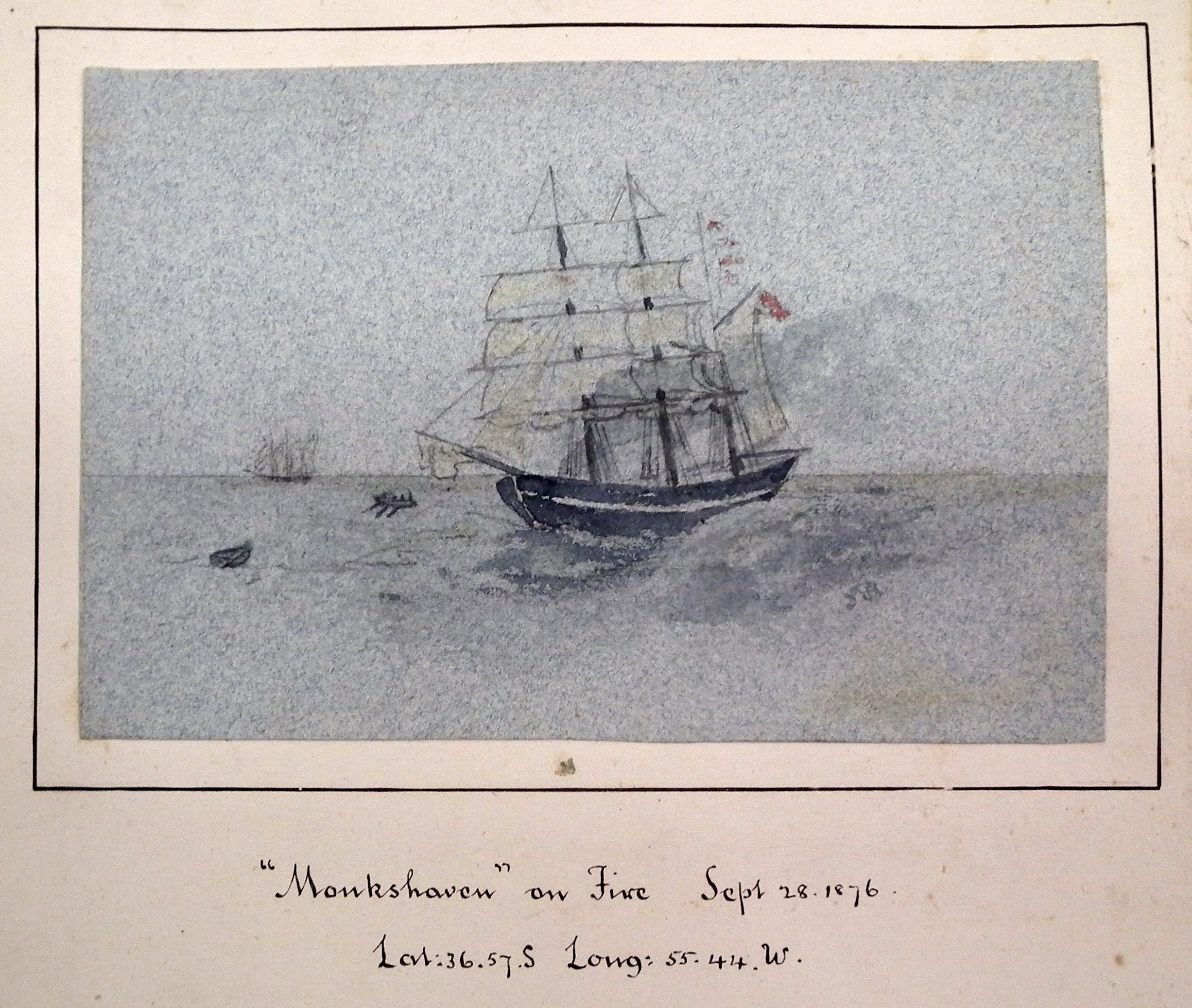 Monkshaven coal ship on fire - contemporary sketch possibly by Anna Brassey